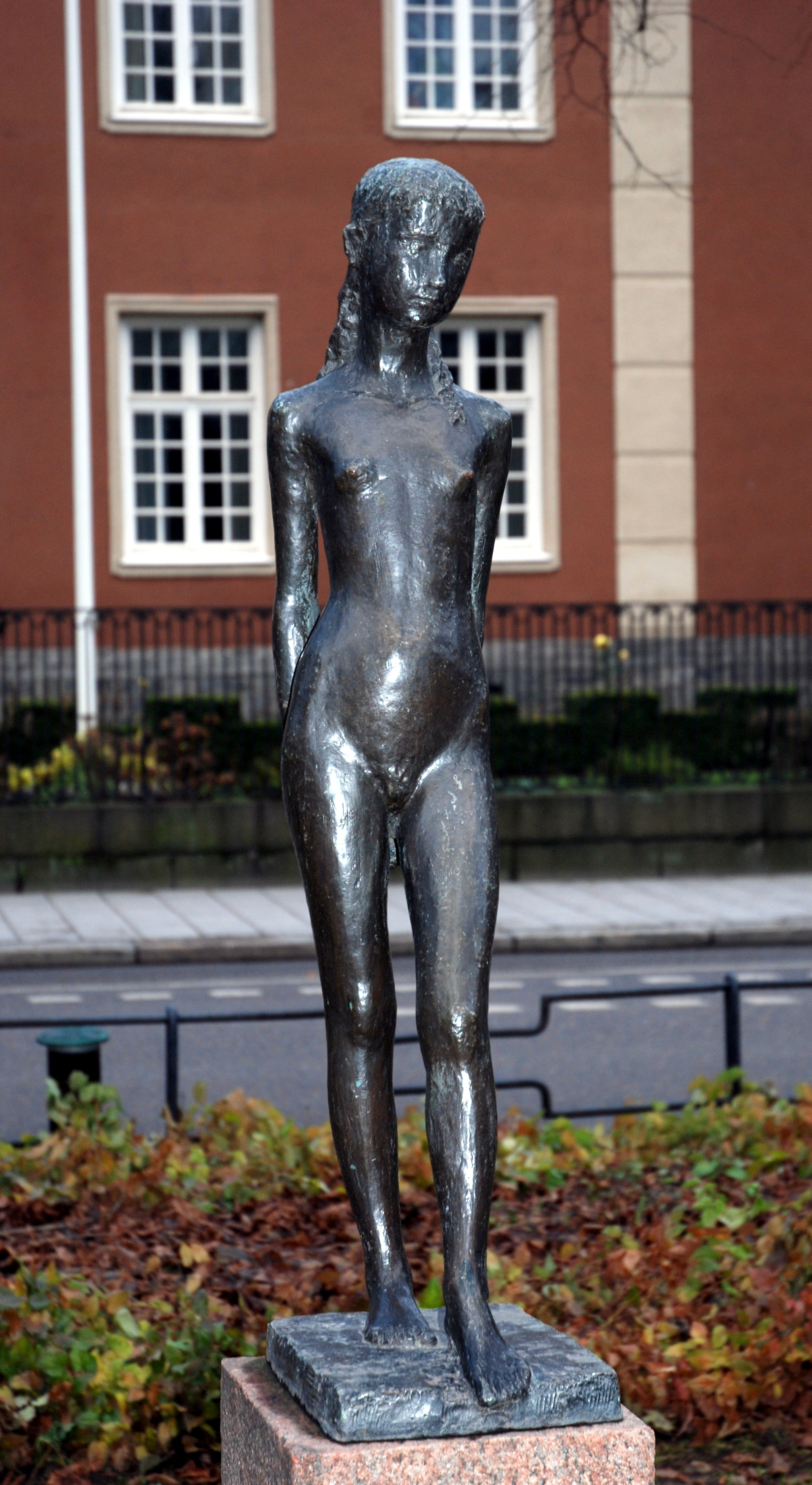 Mimi by Gunnar Nilsson, Karlavägen, Stockholm, Sweden